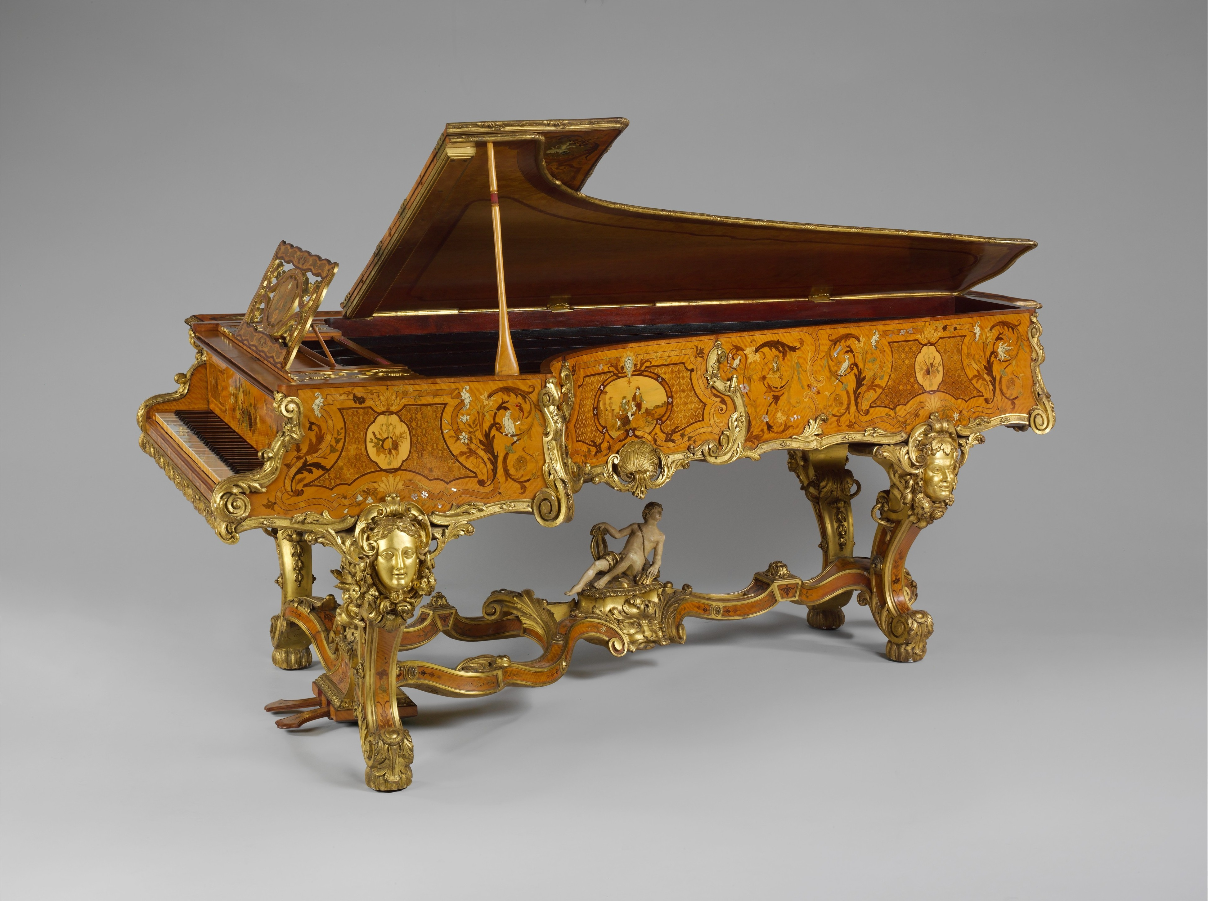 British; Grand Pianoforte; Chordophone-Zither-struck-piano